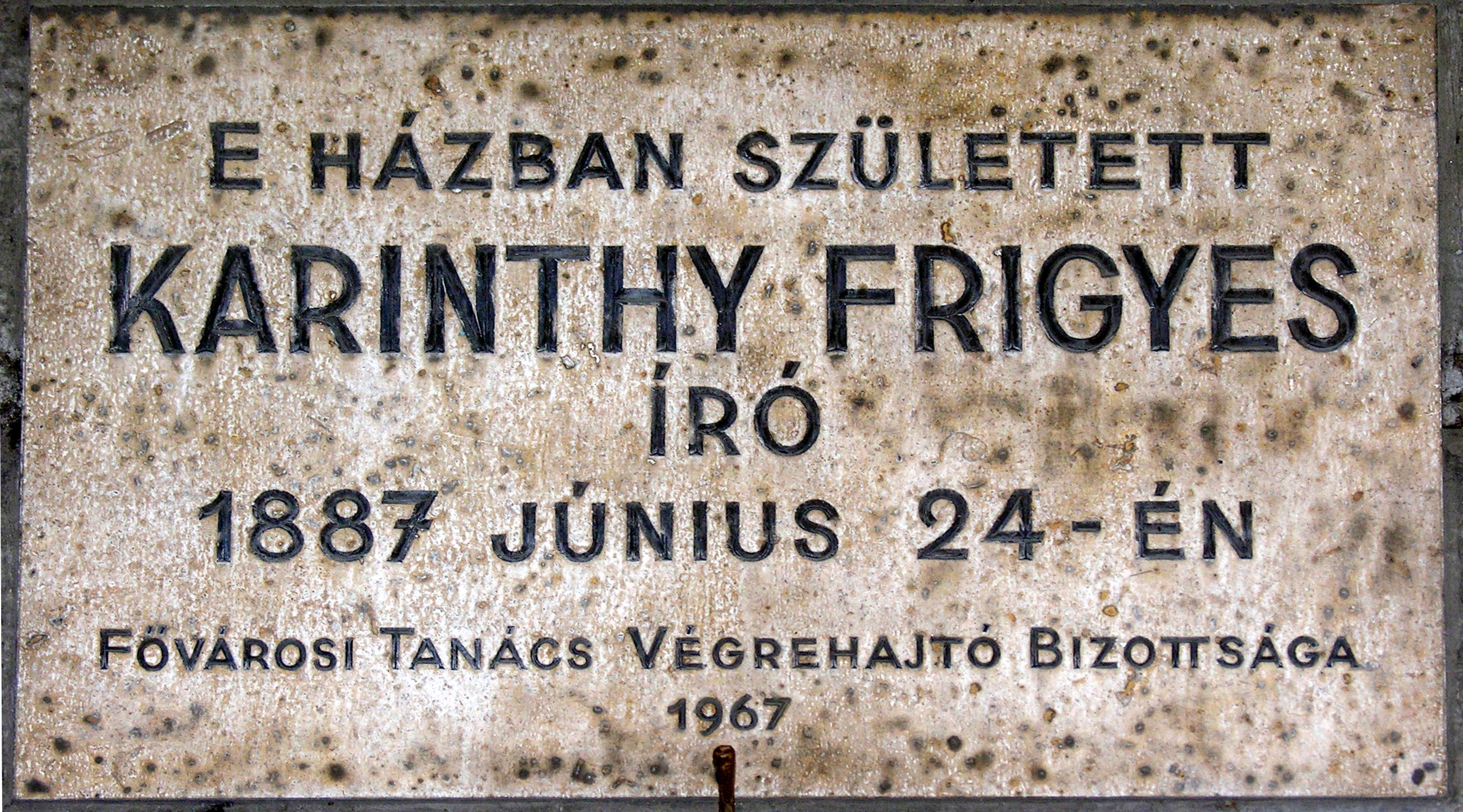 Commemorative plaque of Frigyes Karinthy in Budapest District VII, Damjanich Street No 27